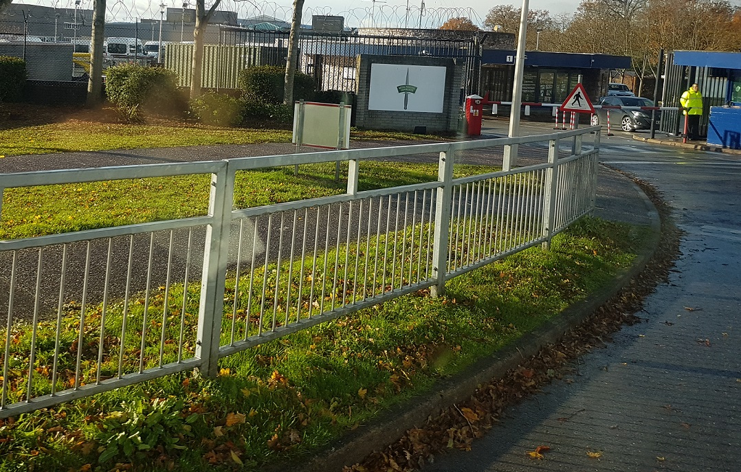 Photograph of Entrance to Commando Training Centre Royal Marines